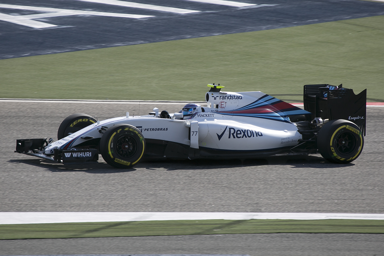 Valtteri Bottas at the 2016 Bahrain Grand Prix